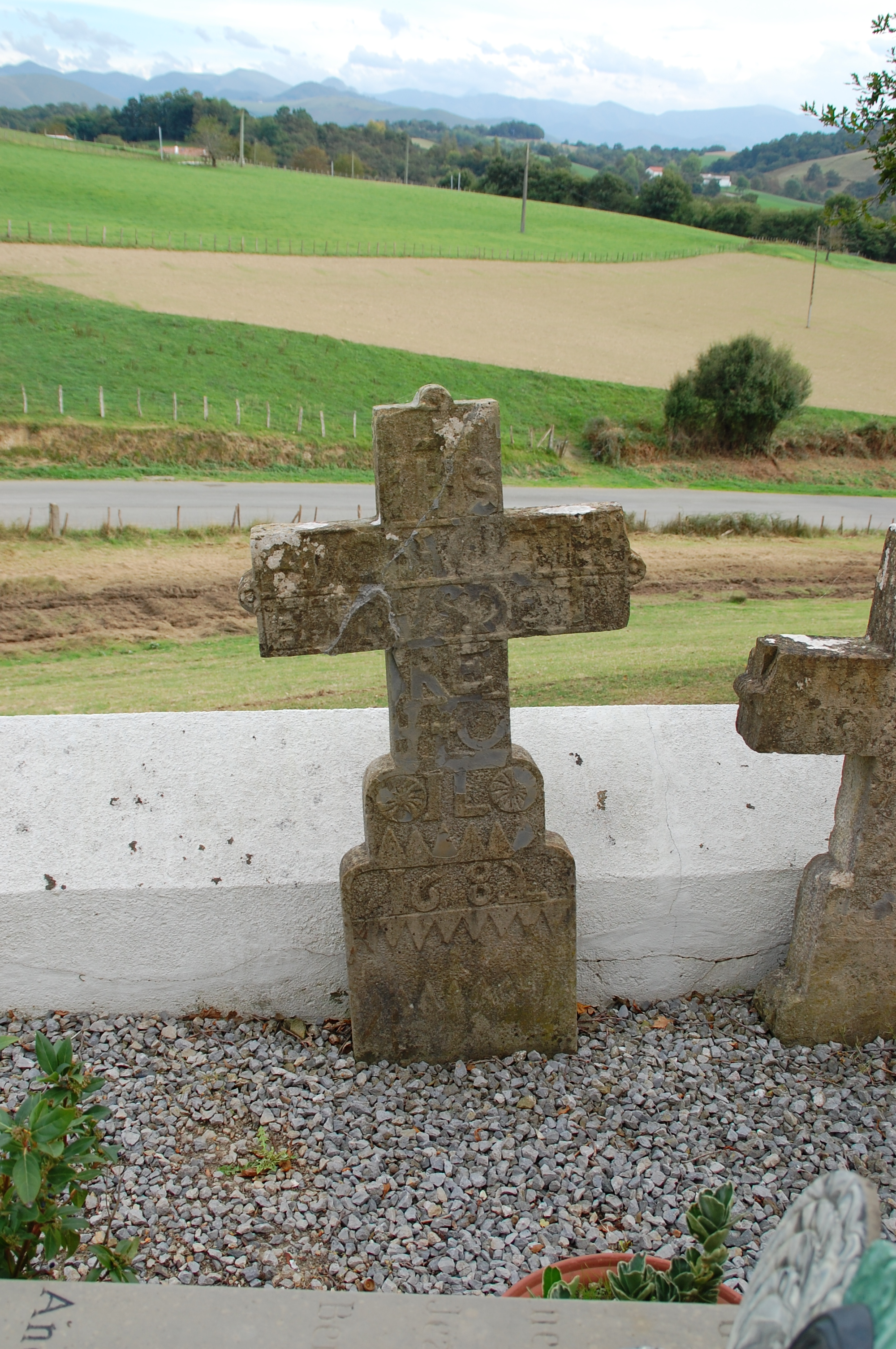 Cross of 1682: "Hic Jacet Petrus de Tre?oil".